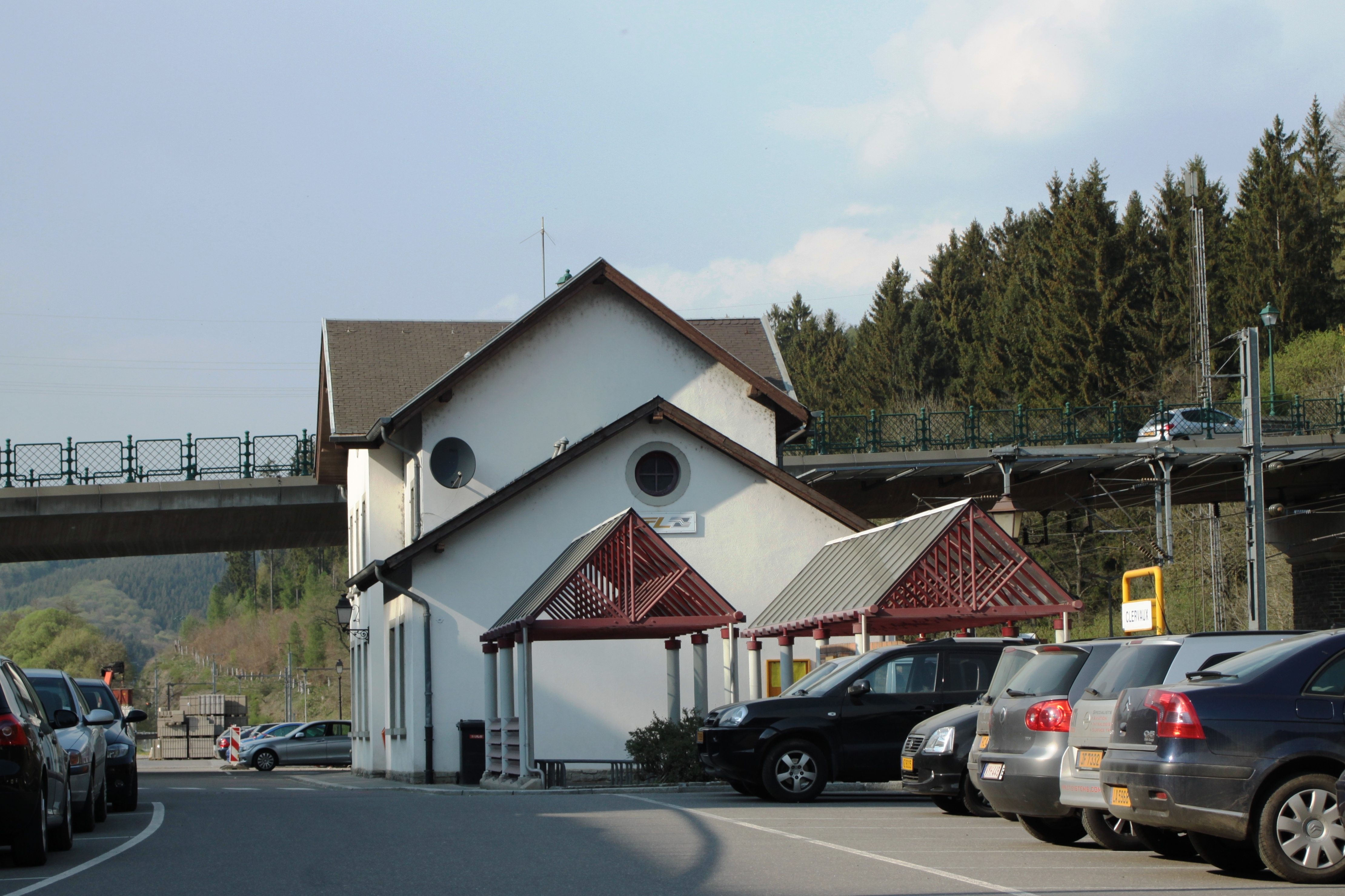 Train station Clervaux (Luxembourg)